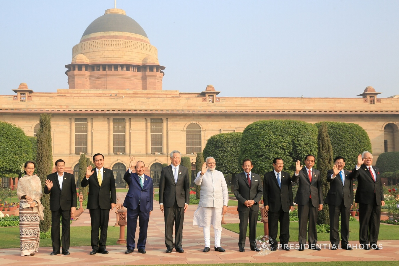 President Rodrigo Roa Duterte poses for a photo with the heads of state and heads of government who joined the Association of Southeast Asian Nations (ASEAN)-India Commemorative Summit at the Rashtrapati Bhavan in New Delhi on January 25, 2018. Joining the President are (from left) Myanmar State Counsellor Aung San Suu Kyi, Thailand Prime Minister Prayuth Chan-ocha, Vietnam Prime Minister Nguyen Phuc, Singapore Prime Minister Lee Hsien Loong, India Prime Minister Narendra Modi, Sultan and Yang Di-Pertuan of Brunei Hassanal Bolkiah, Cambodia Prime Minister Hun Sen, Indonesia President Joko Widodo, Lao People's Democratic Republic Prime Minister Thongloun Sisoulith and Malaysia Prime Minister Najib Razak. ALBERT ALCAIN/PRESIDENTIAL PHOTO